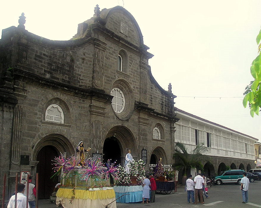 Facade of the historic Barasoain Church in Malolos City, Bulacan.